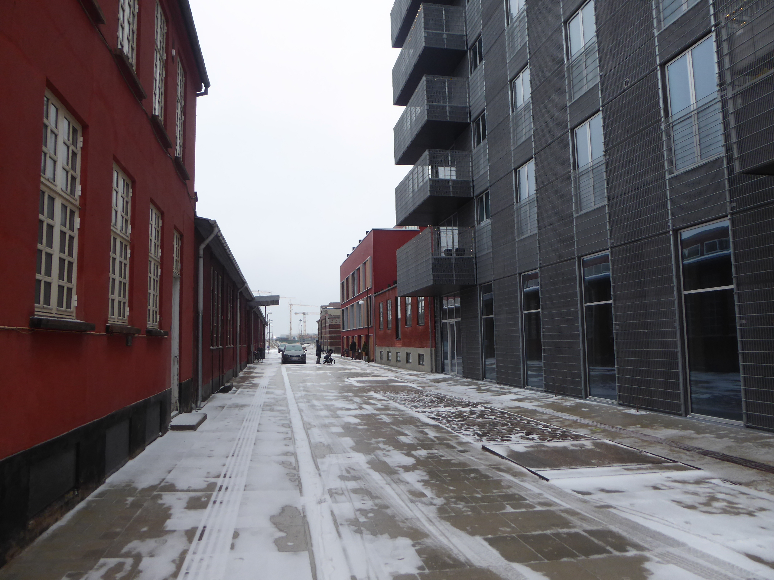 The street Rostockgade with snow in Nordhavn in Copenhagen.